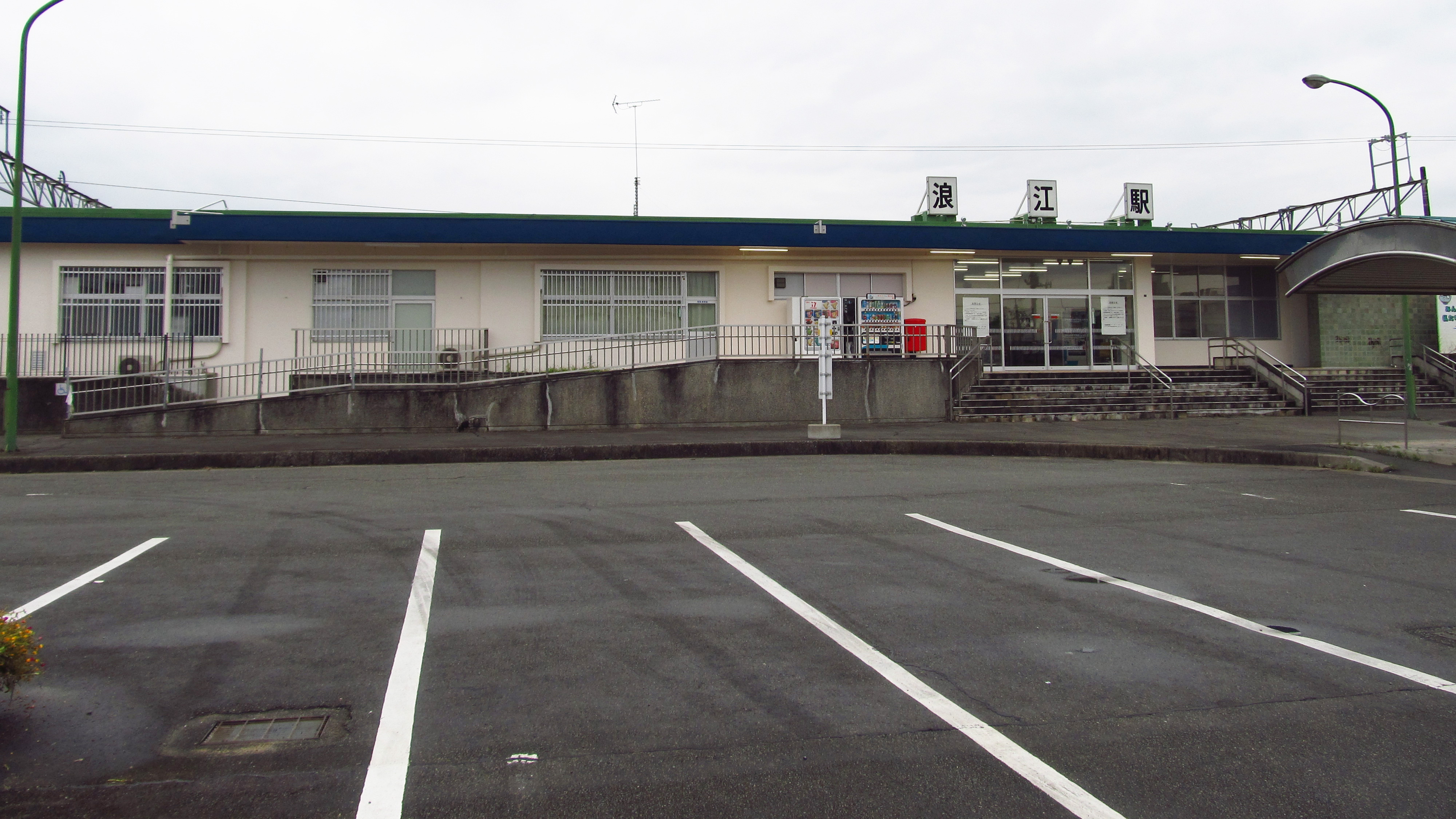 The building of Namie Station on the Jōban Line in Fukushima Prefecture, Japan